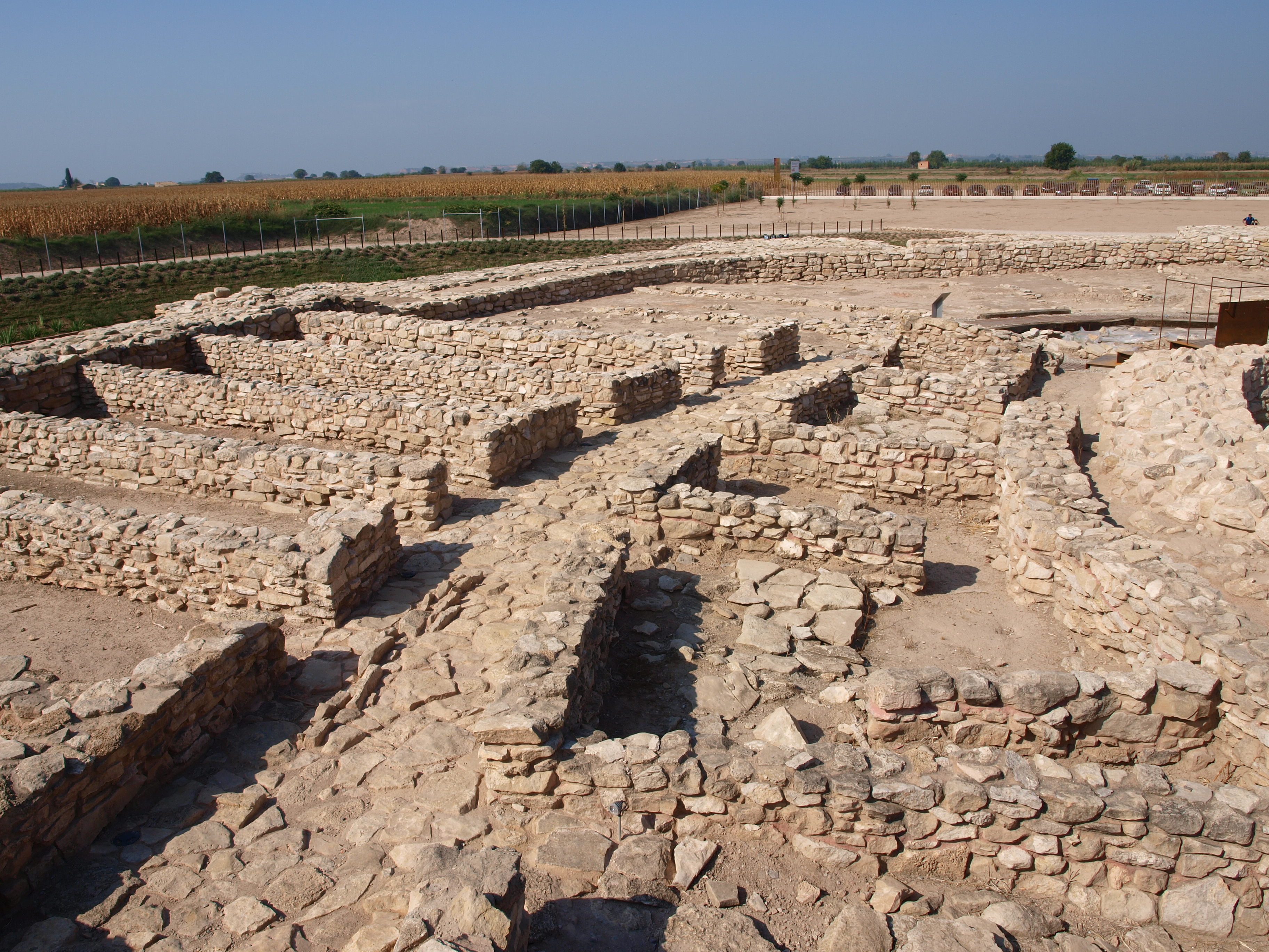 "Els Vilars" Iberian site — southwestern view 01